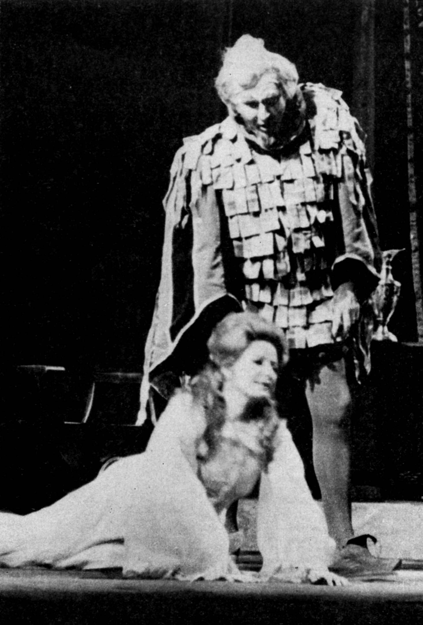 Sherrill Milnes (main actor) and Maddalena Bonifaccio (Gilda) in "Rigoletto" (Act III) in the Colón Theatre, Buenos Aires